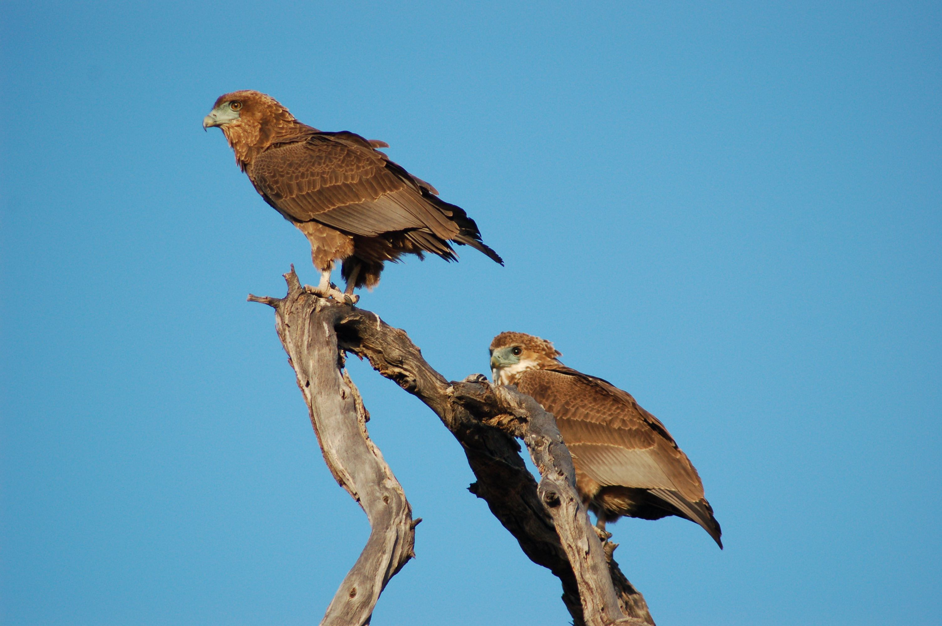 Two juvenile Bateleurs near the Chobe River front, Botswana.